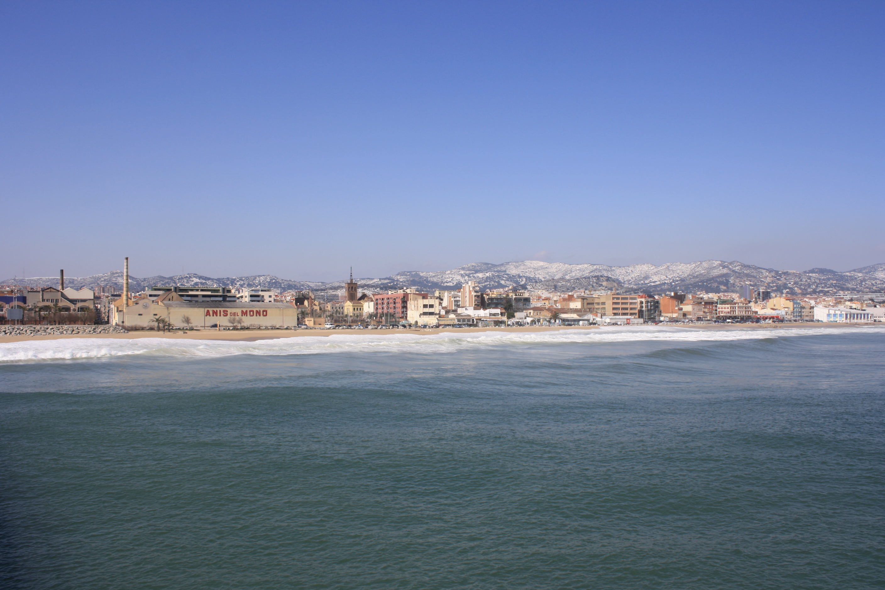 View from the Pont del Petroli (Badalona) the noon of 9th March 2010 after the strongest snowstorm in Barcelona of the past 20 years.